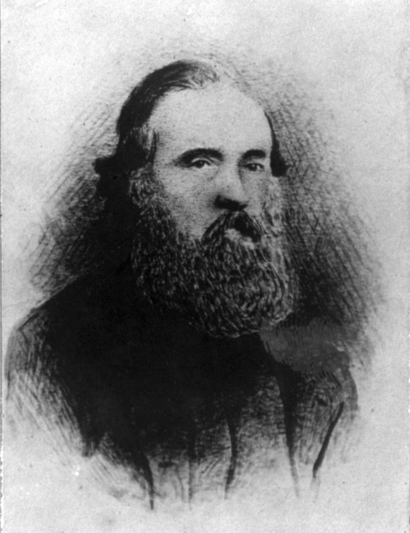 William Henry Carroll, General in the Confederate States Army. Drawing based on photograph by Mathew Brady. Library of Congress Prints and Photographs Division